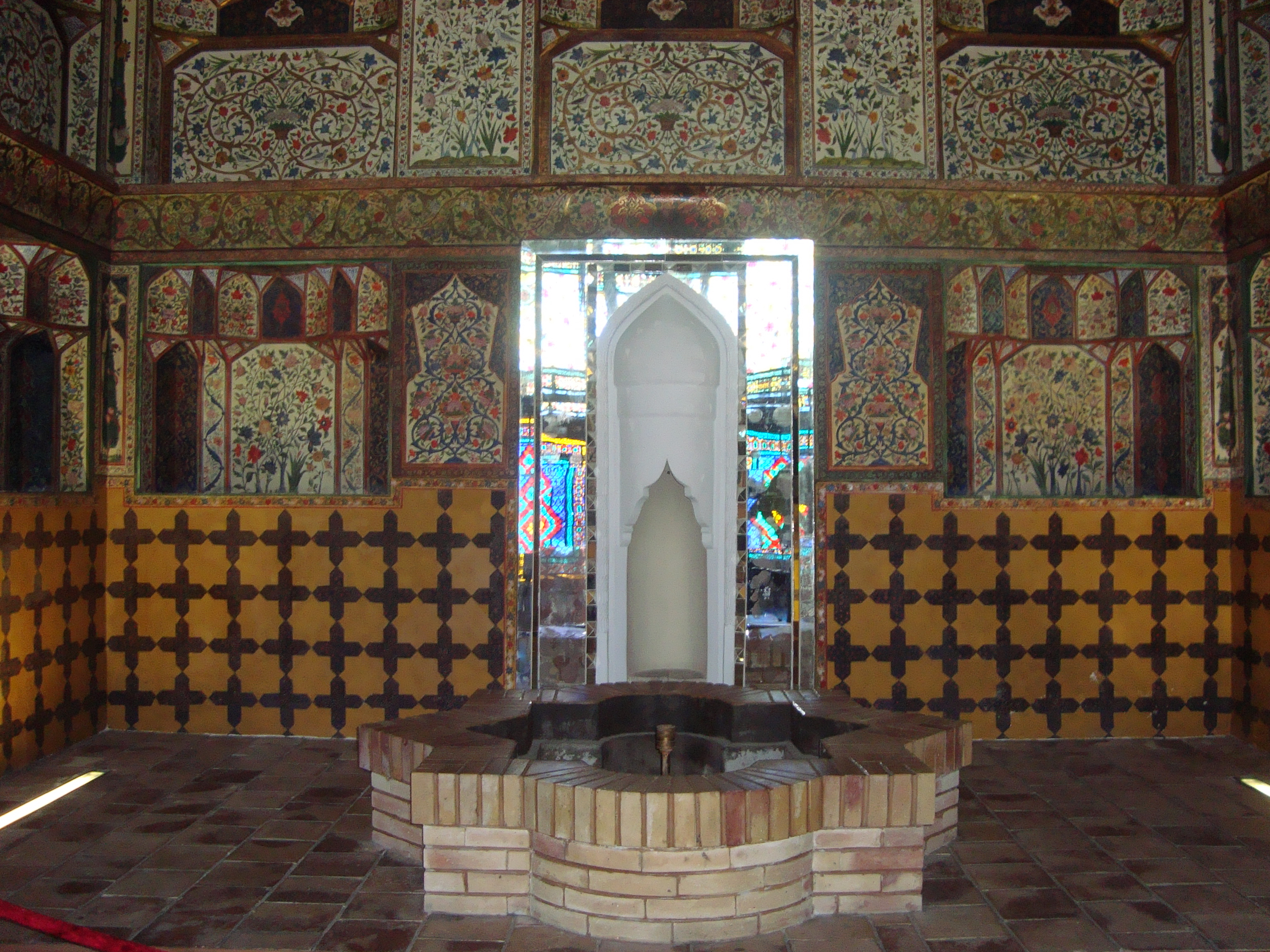 Shaki_khan_palace_image_Shaki_city_azerbaijan